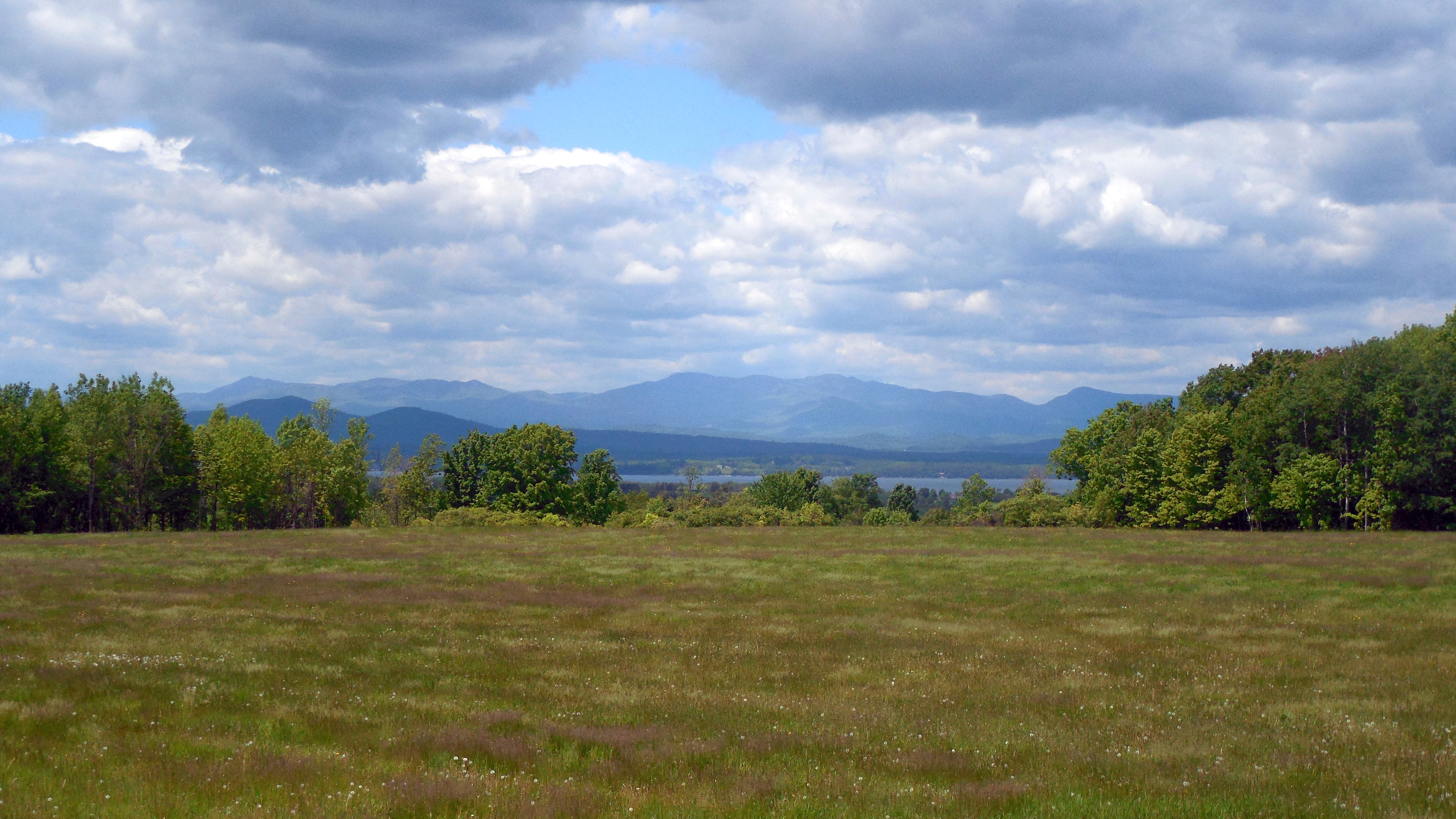 Westward view of the Adirondack Mountains and Lake Champlain from US Route 7 in Charlotte, Vermont, October 2016.